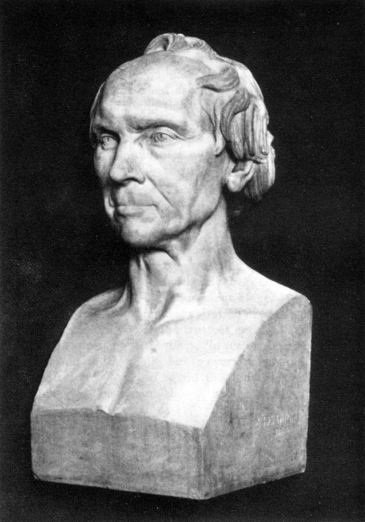 Photograph of portrait bust of bibliographer and innovative educator Joseph Green Cogswell.